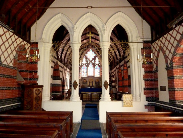 Inside Twinstead church Interesting interior brickwork, a very neat and lovely place, quite atmospheric.